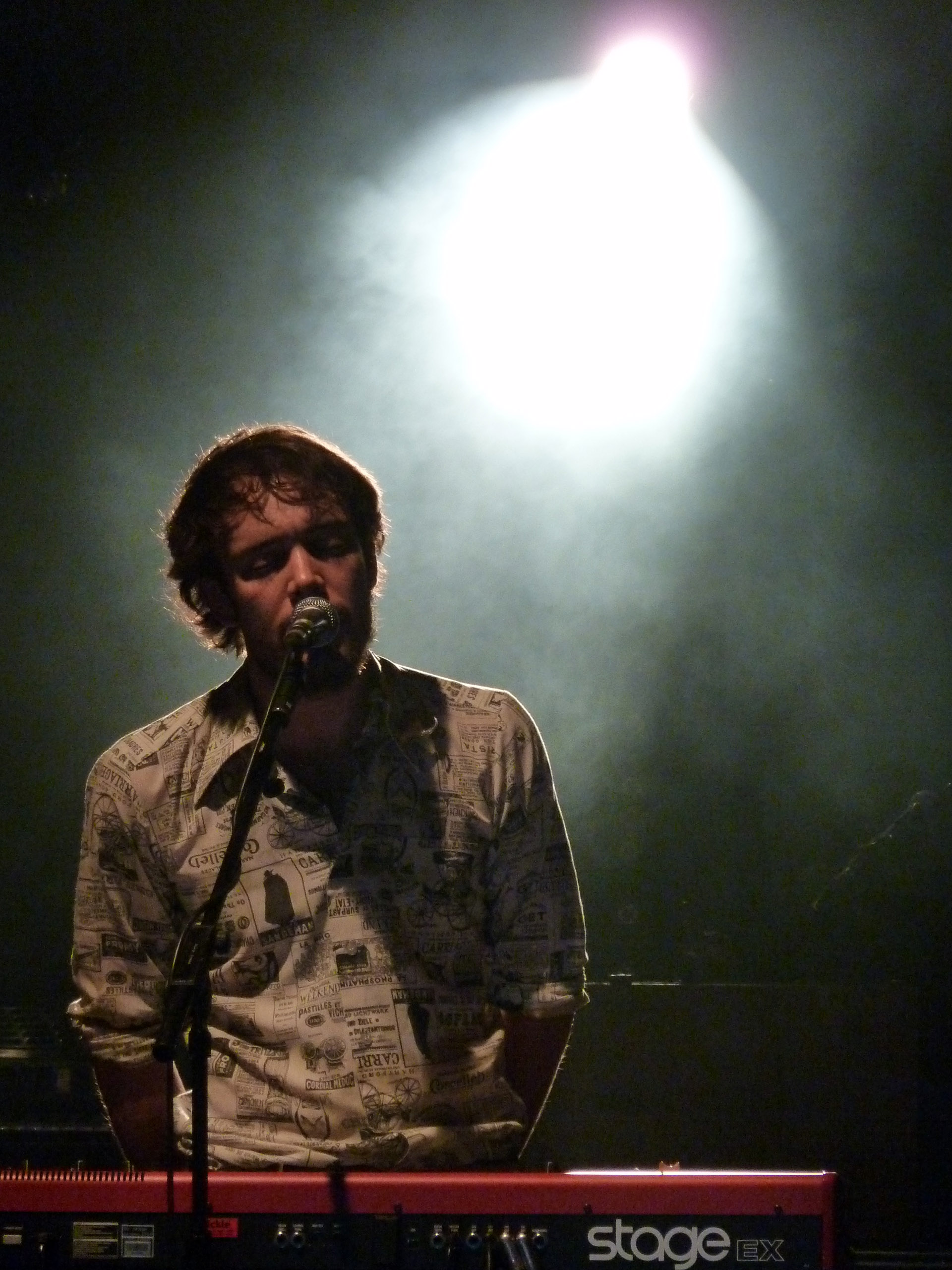 Ben Lovett, Mumford & Sons; Berlin, C-Halle, 2010